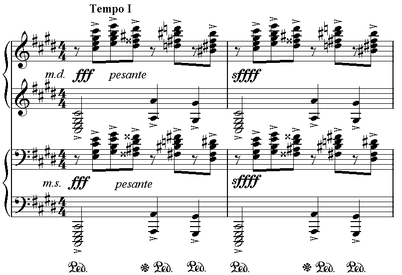 Rachmaninoff's Prelude Op. 3 No. 2, The Recapitulation of the theme, in four staves